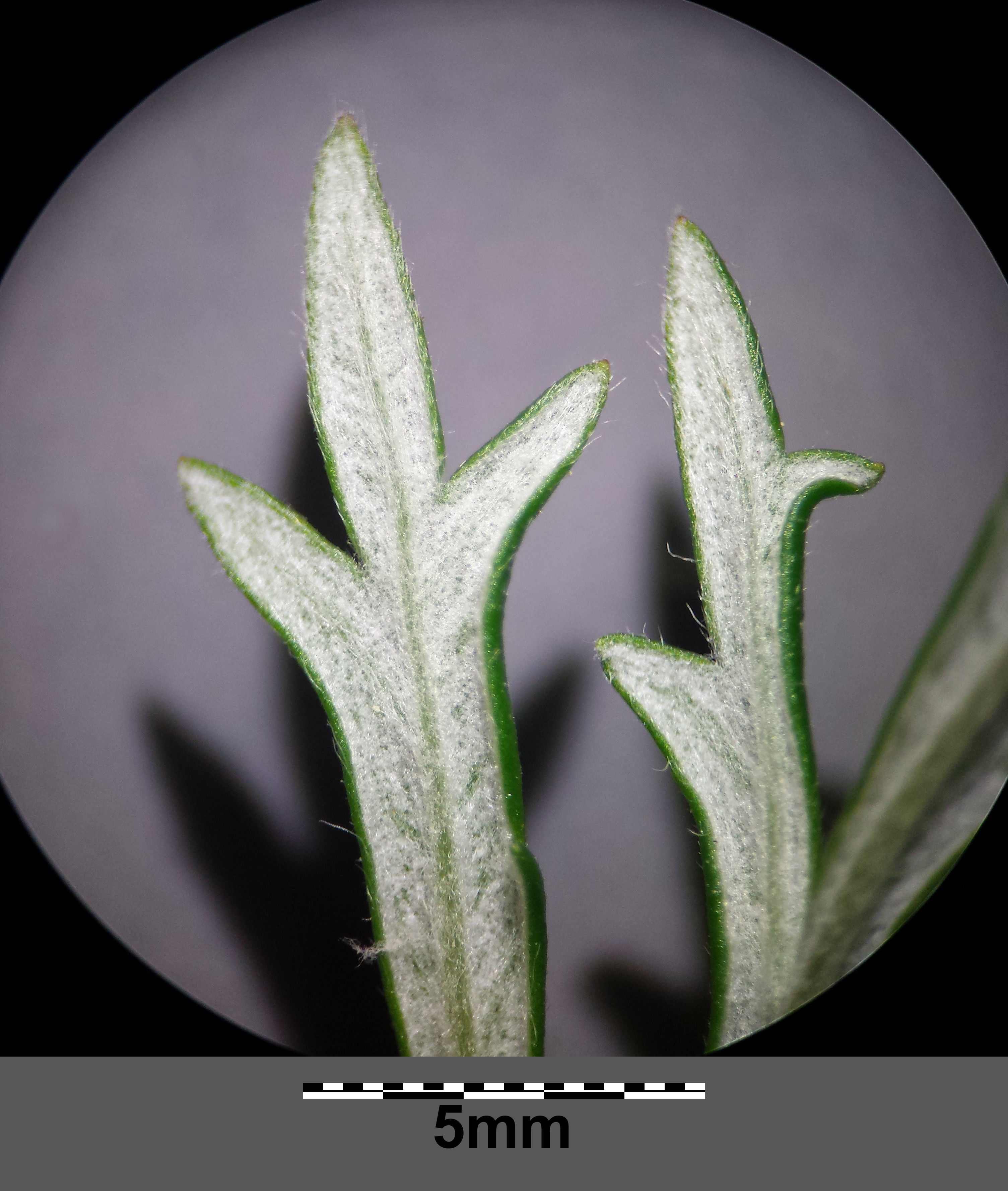 Bottom side of leaf Taxonym: Potentilla argentea ss Fischer et al. EfÖLS 2008 ISBN 978-3-85474-187-9 Location: Siebeckstraße, Vienna-Donaustadt - ca. 160 m a.s.l. Habitat: ruderal meadows